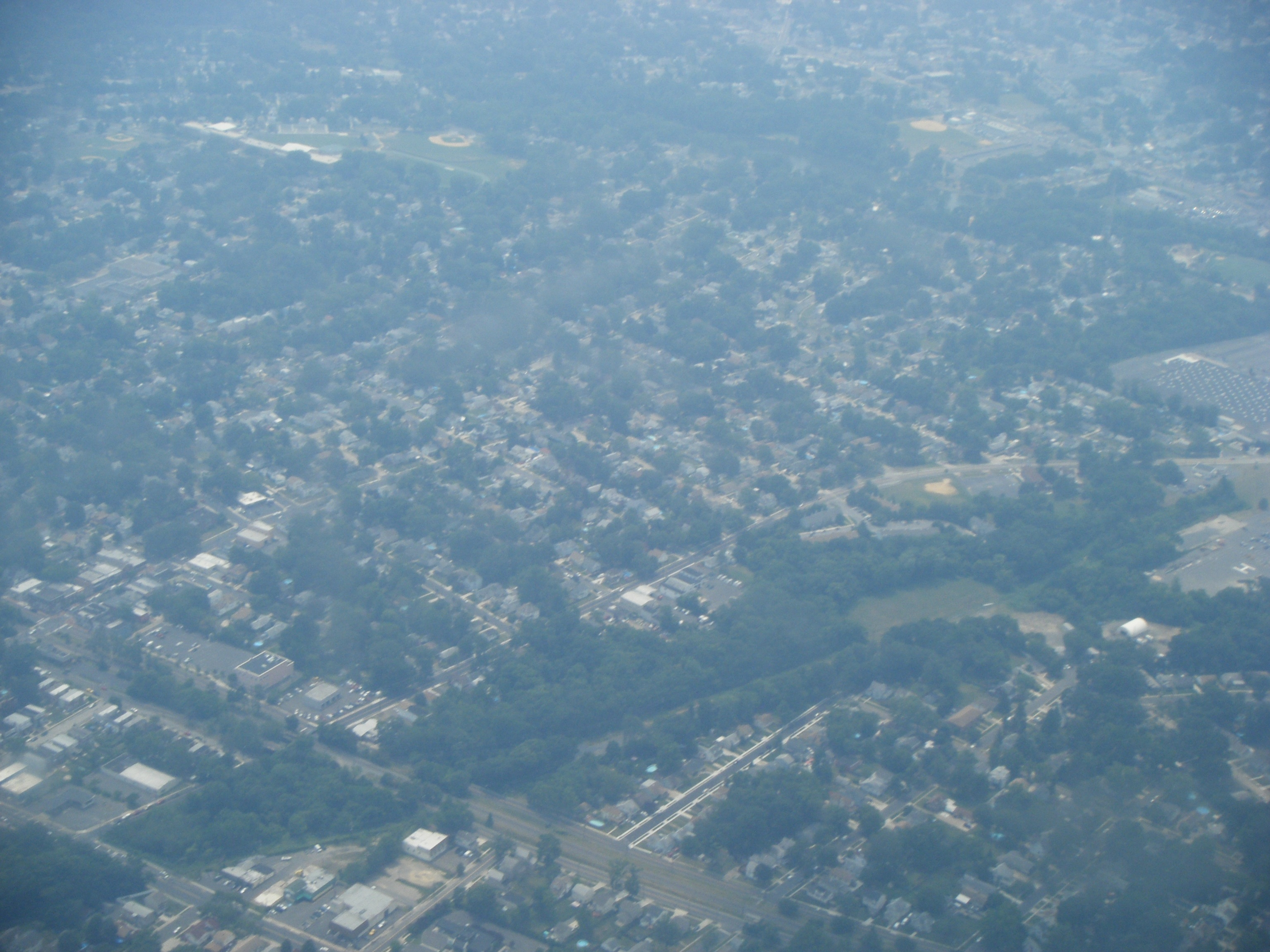 A view of Audubon, New Jersey taken from an airplane.